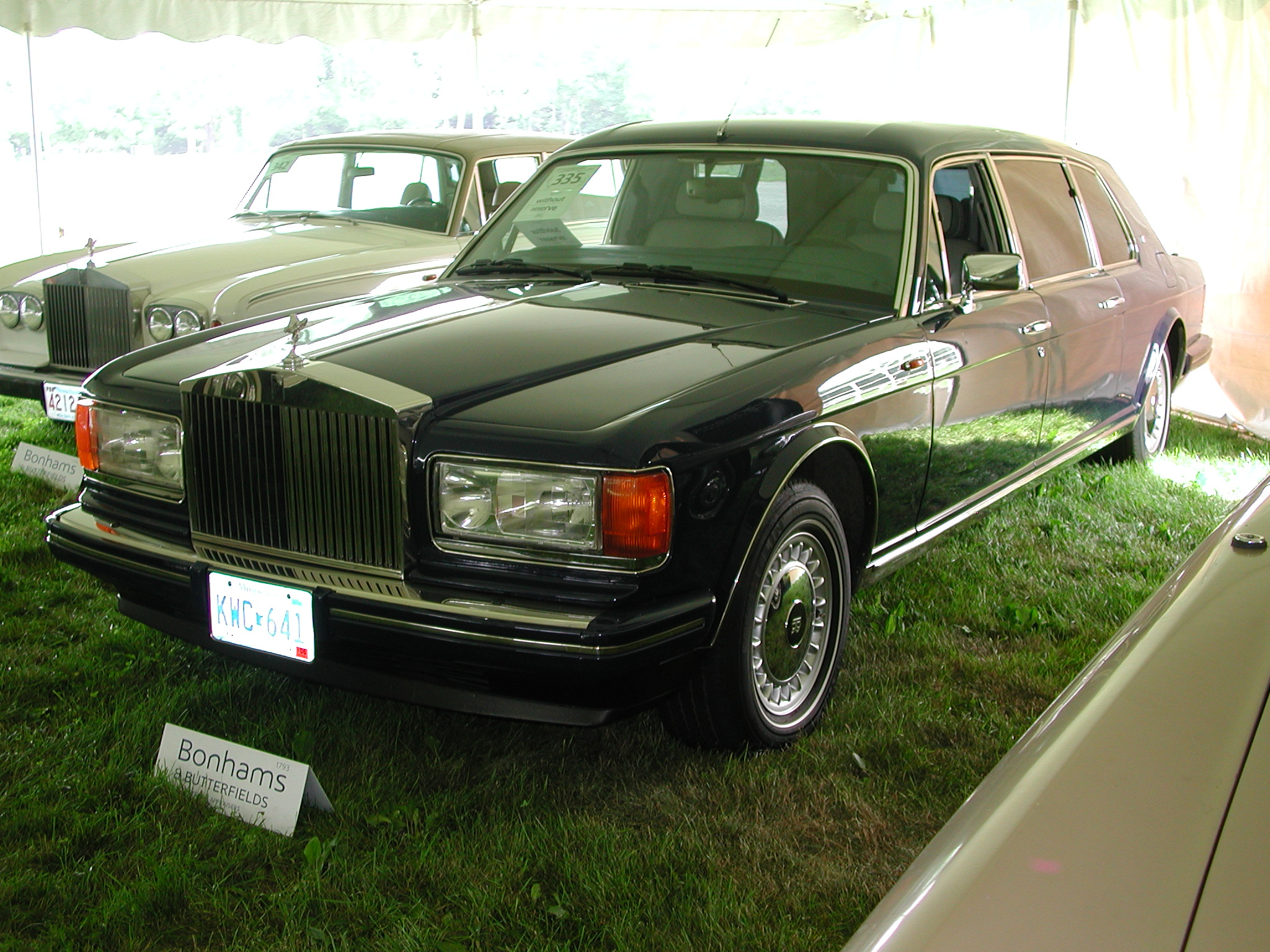 1994 Rolls-Royce Silver Spur III Armored Touring Limousine. One of only 91 built. This bulletproof executive stretch limousine, finished in Ming Blue with Slate Grey interior, sold to a private collector for $59,900 at the Bonhams & Butterfields Auction in Darien, CT on July 29, 2005. Its actual value today, however, is estimated to be $140,000. Its original price in 1994 was $650,000. Photographed by Jagvar at the Bonhams & Butterfields Auction in Darien, Connecticut on July 29, 2005.